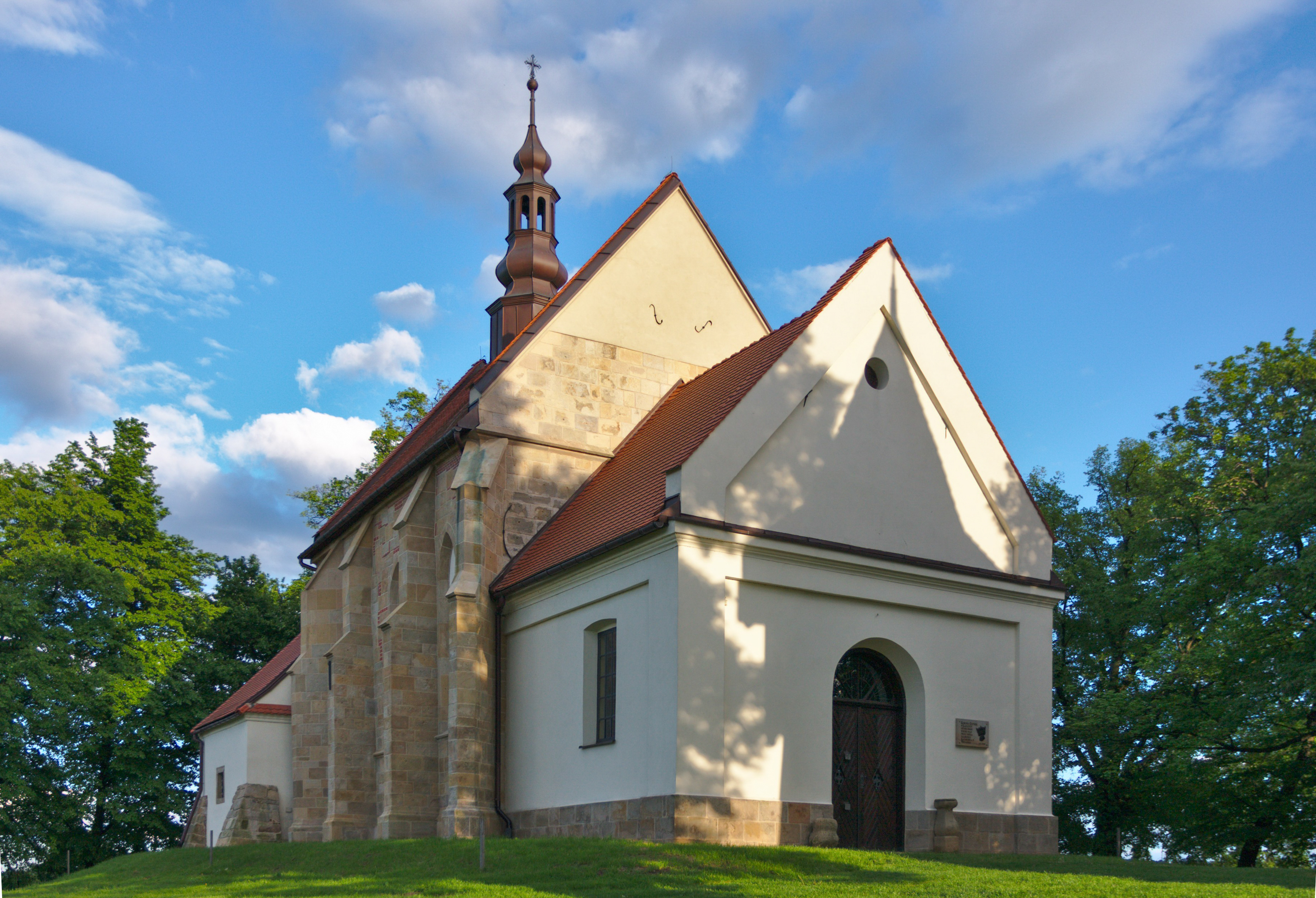 Church of the Nativity of the Virgin Mary was built in first half of XIV century under sponsorship of King Casimir III the Great, King of Poland. Currently, it mainly serves as cementary chapel and every year is target for annual pilgrimage from nearby Bochnia town.